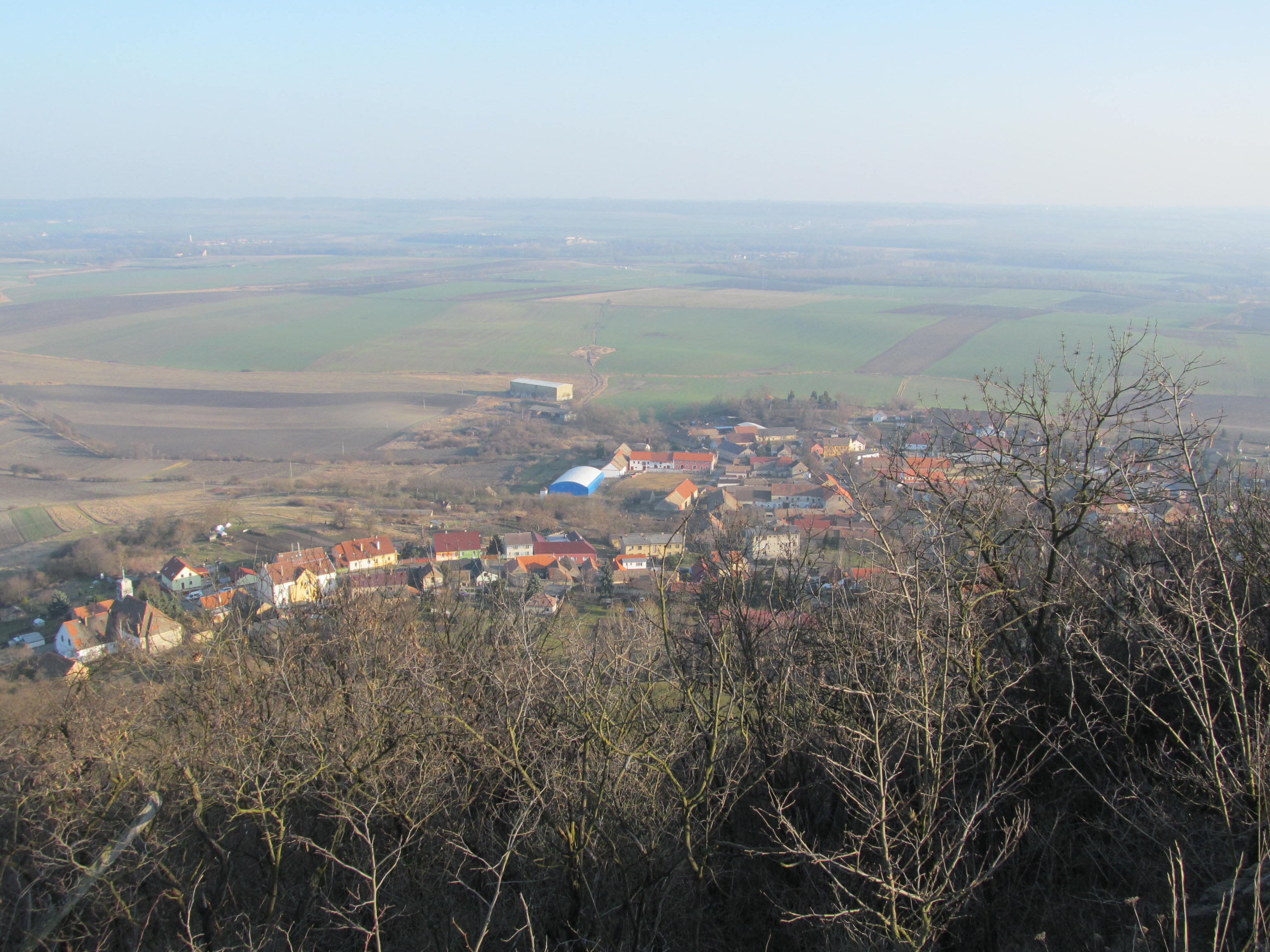 Chožov from top of Chožov hill